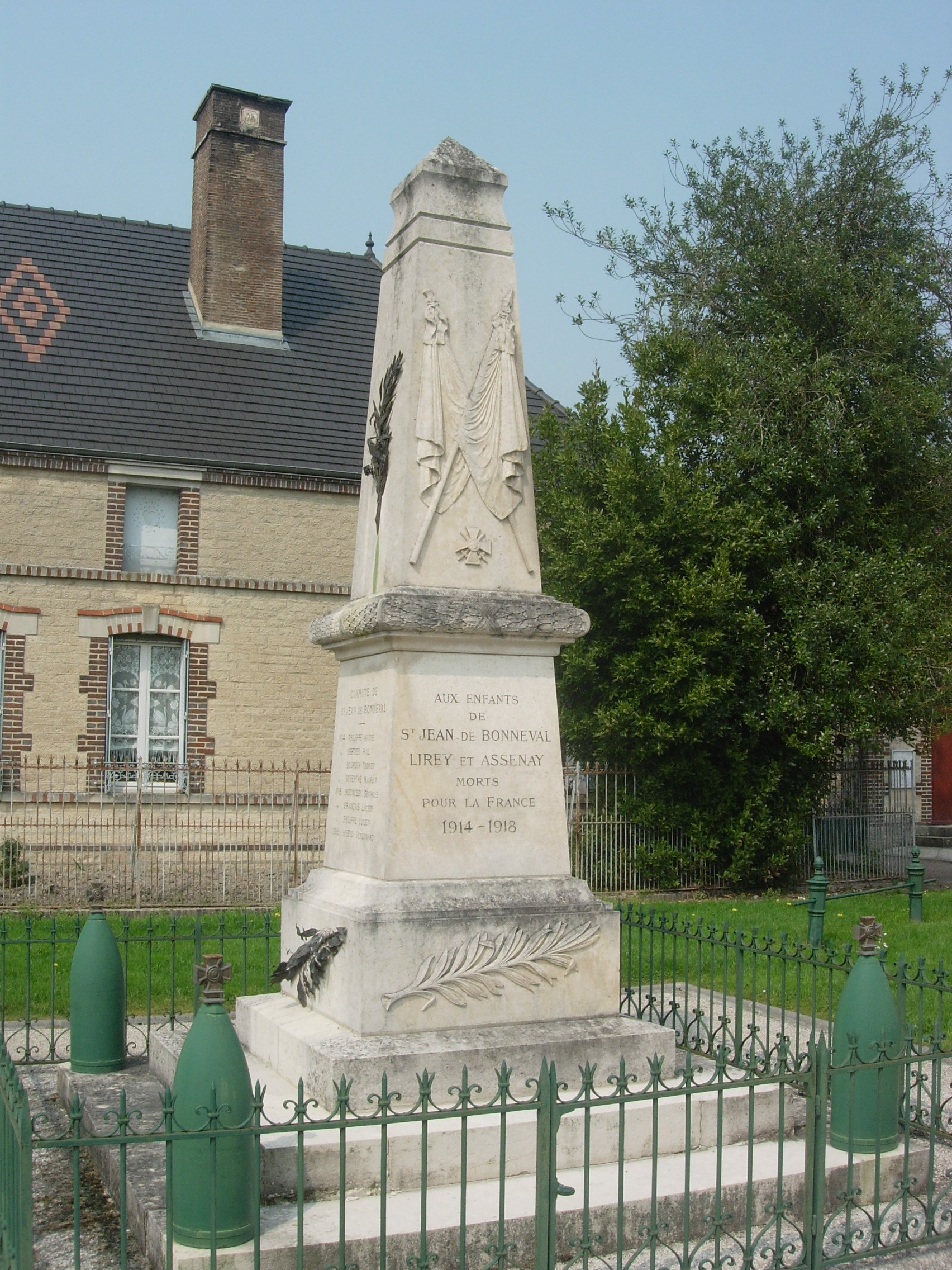 Saint-Jean-de-Bonneval monument aux morts